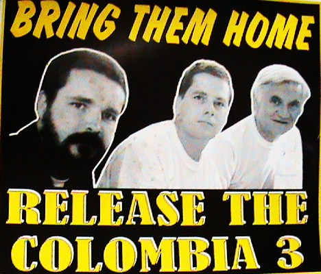 A Sinn Fein poster calling for the release of the Colombia Three